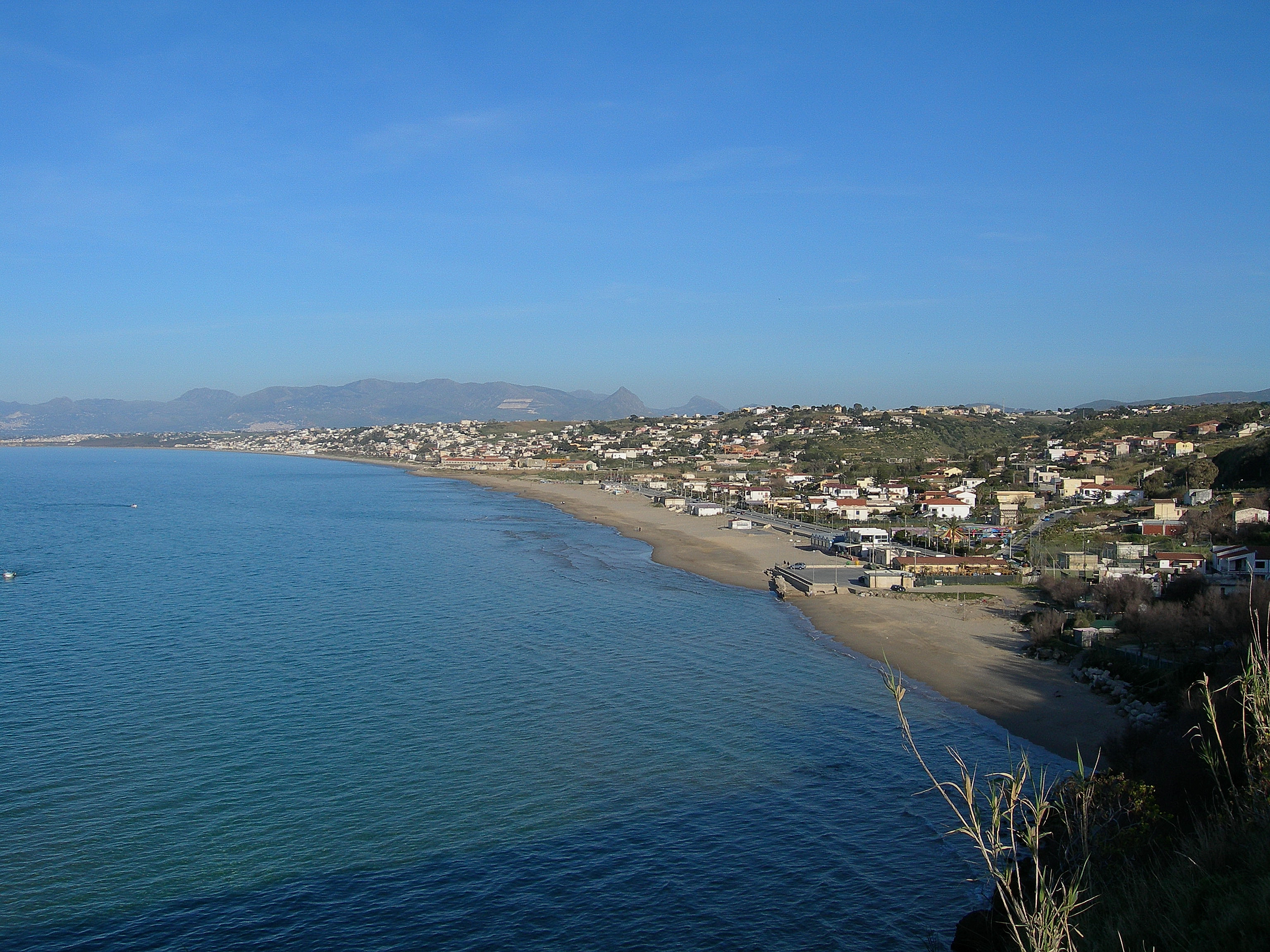 Castellammare's Gulf